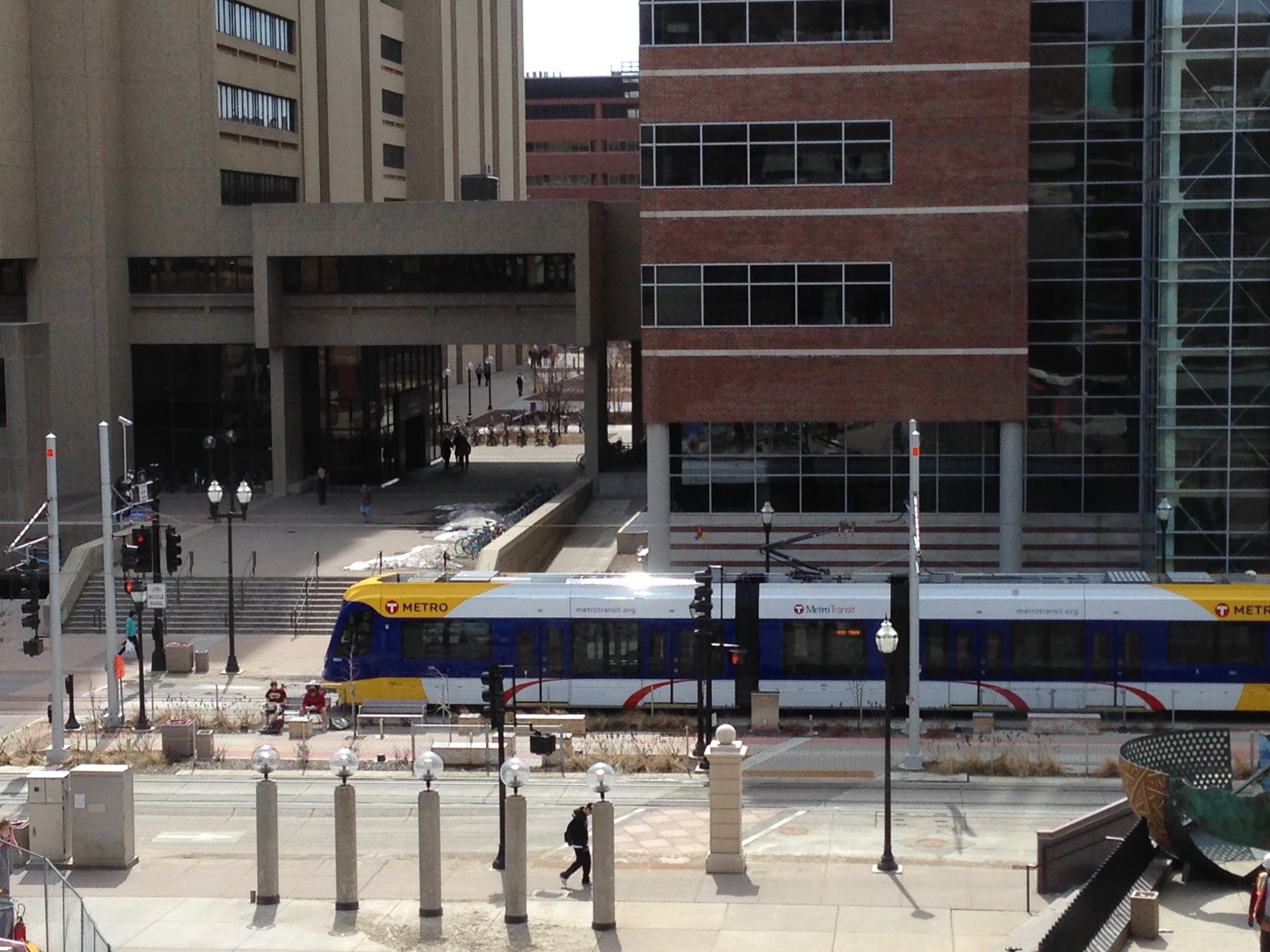 Green Line light rail train during April 2014 test runs, between Keller Hall and Moos Health Sciences Tower, on the University of Minnesota east bank campus on Washington Avenue.